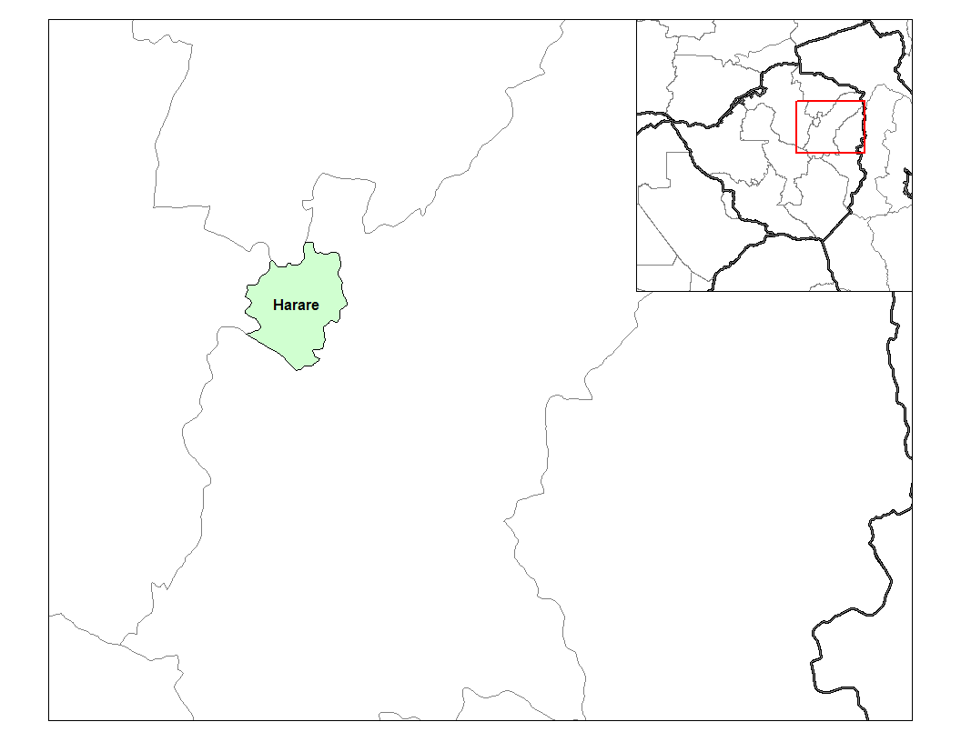 Map of the Harare district of Zimbabwe. Created by Rarelibra 18:27, 28 September 2006 (UTC) for public domain use, using MapInfo Professional v8.5 and various mapping resources.